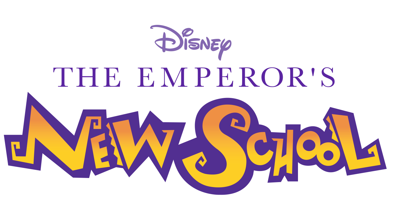 Logo of the American animated television series The Emperor's New School.